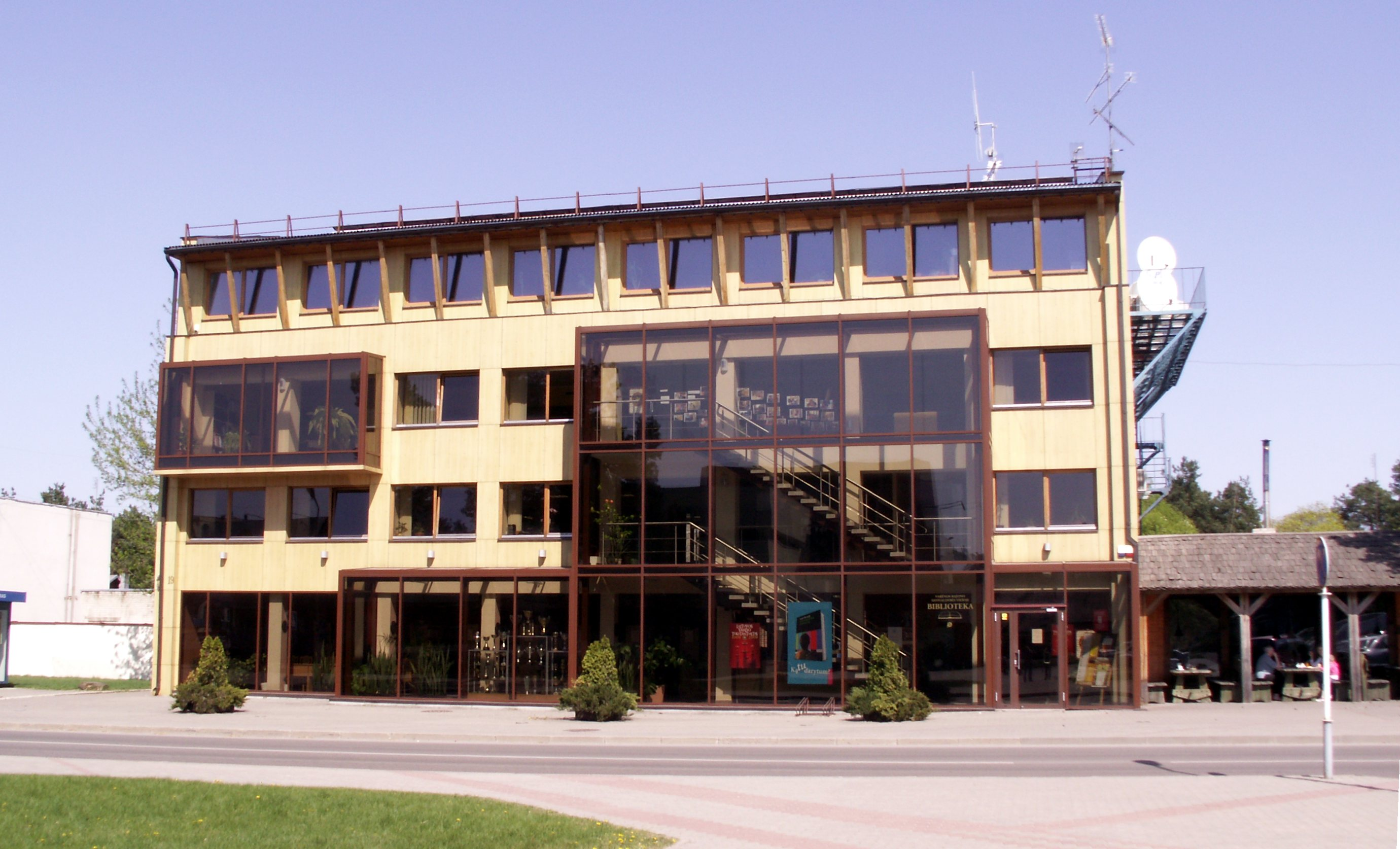 Bibliotheca Varėna, Lithuania